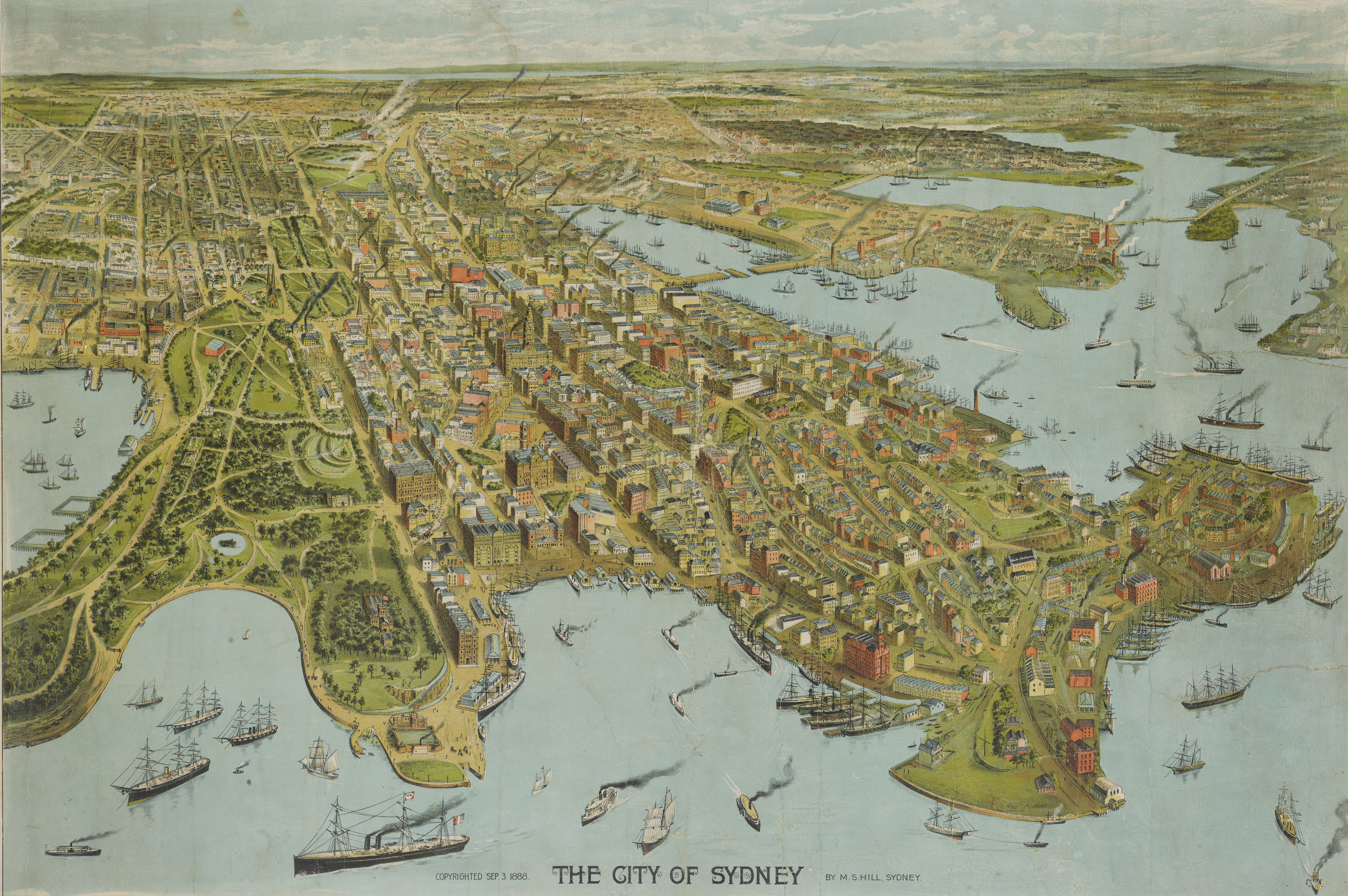 Colour illustration of Sydney from a bird's-eye perspective, in the collection of the City of Sydney Archives.